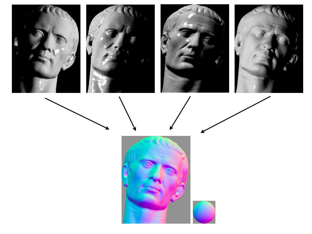 Explanatory diagram of photometric stereo. Multiple images of an object under different lighting are analyzed to produce an estimated normal direction at each pixel.